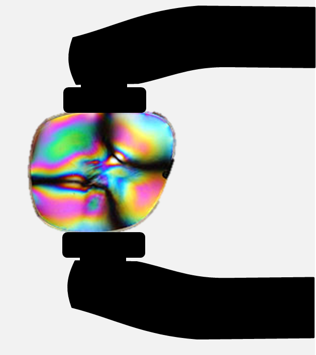 Optical stress analysis of a plastic lens placed between crossed polarizers